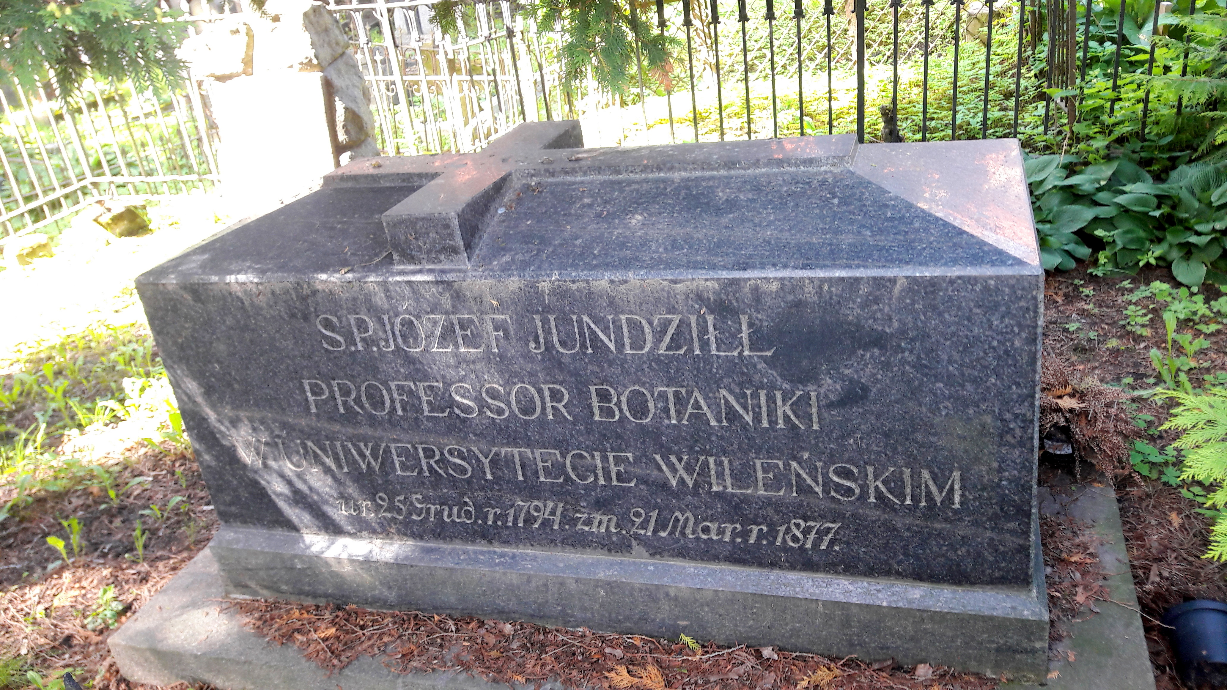 Tomb of Joseph Jundzil in Bernardine Cemetery, Vilnius